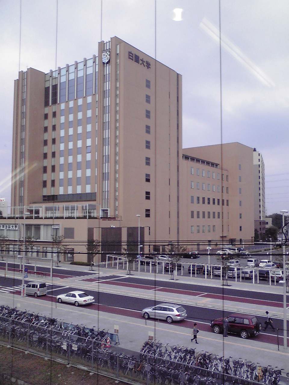 This is a building of Hakuo University in Oyama, Tochigi, Japan.I took this photo in JR Oyama station.